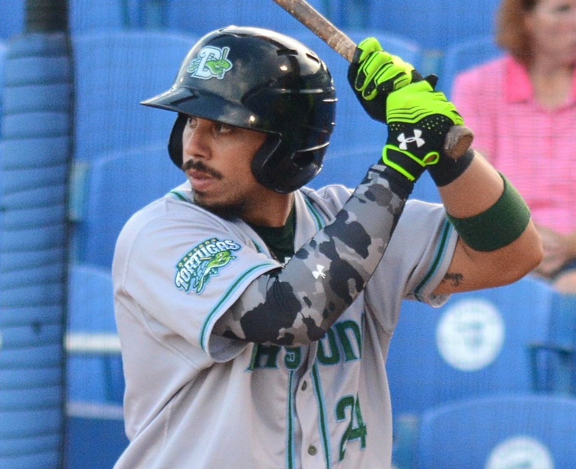 Dayton Tortugas outfielder Sebastian Elizalde bats against Dunedin on July 20, 2015.